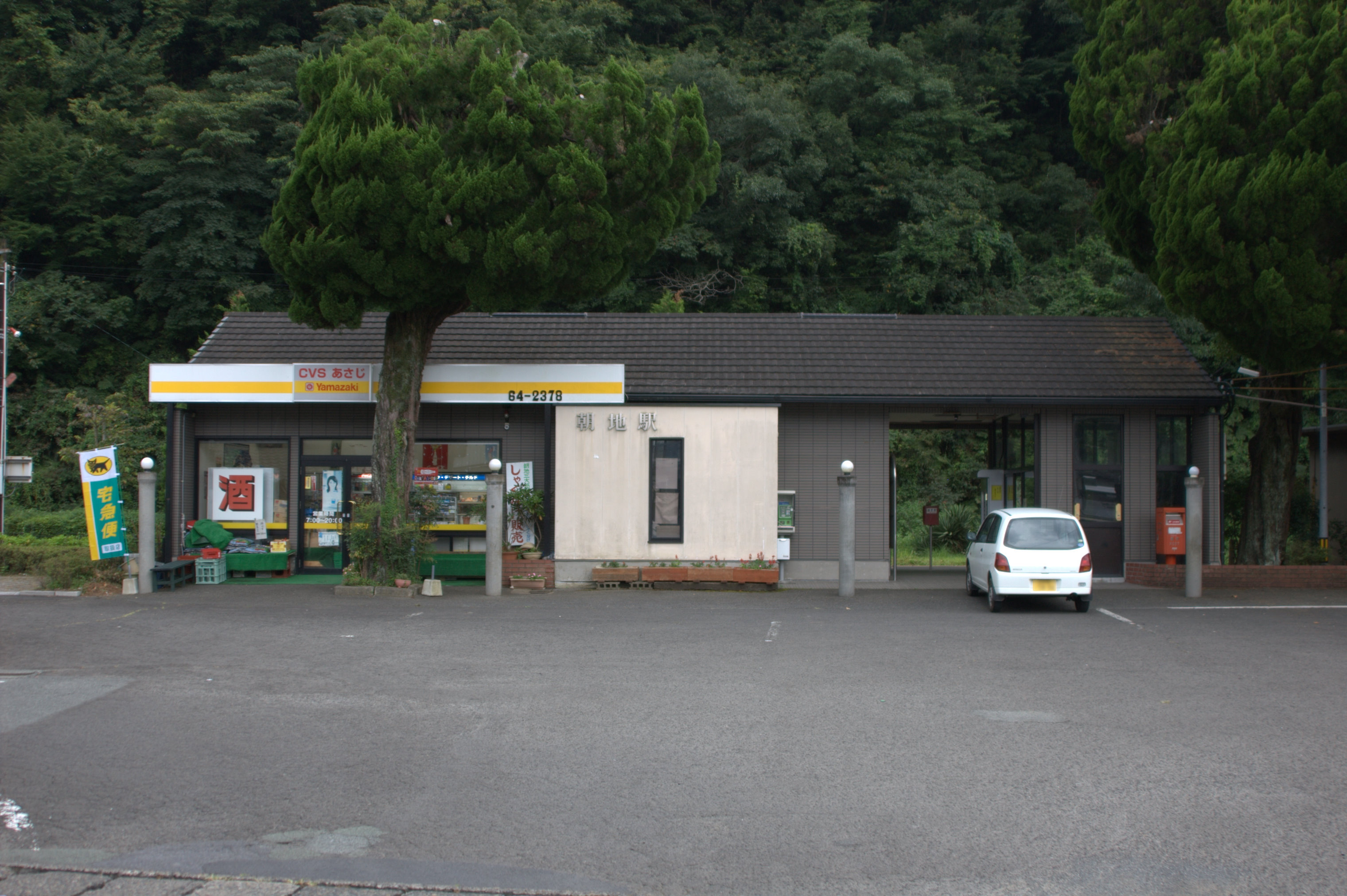 JR Kyusyu Asaji Station on Hohi Main Line.